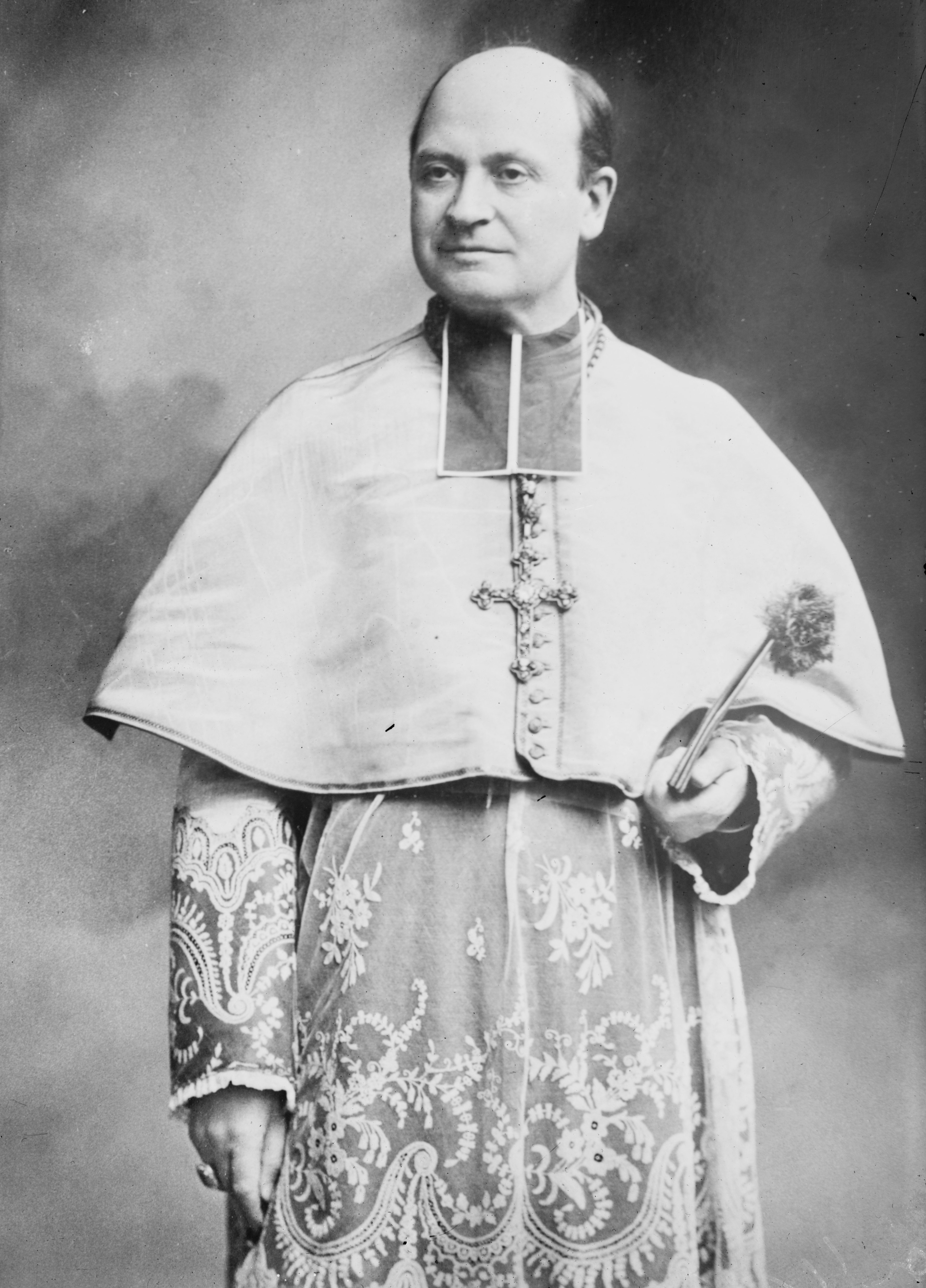 Title: Cardinal Amette, standing three-quarters Abstract/medium: 1 negative : glass ; 5 x 7 in. or smaller.